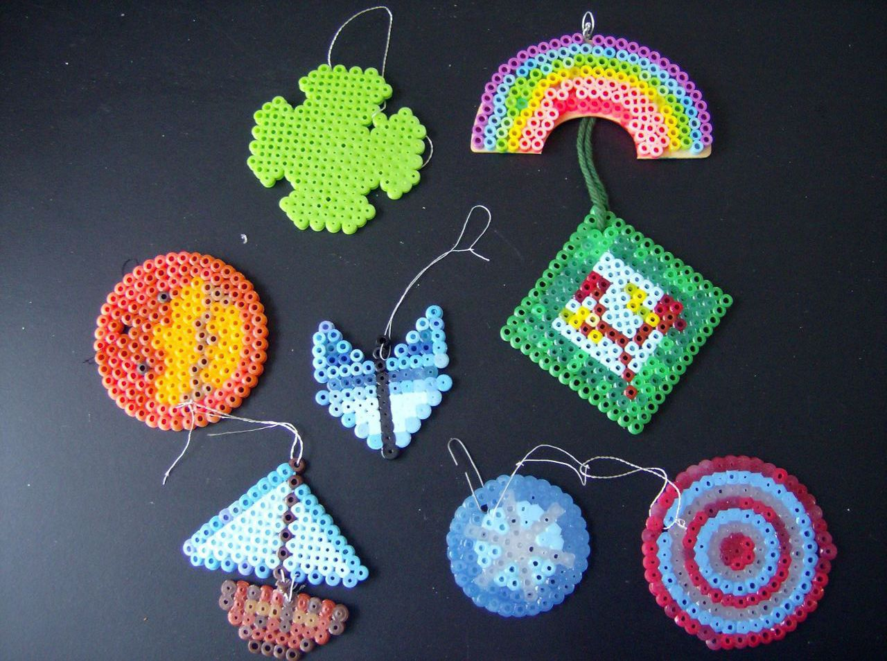 perler beads, toy pearls to make pictures and objects, stick together by ironing